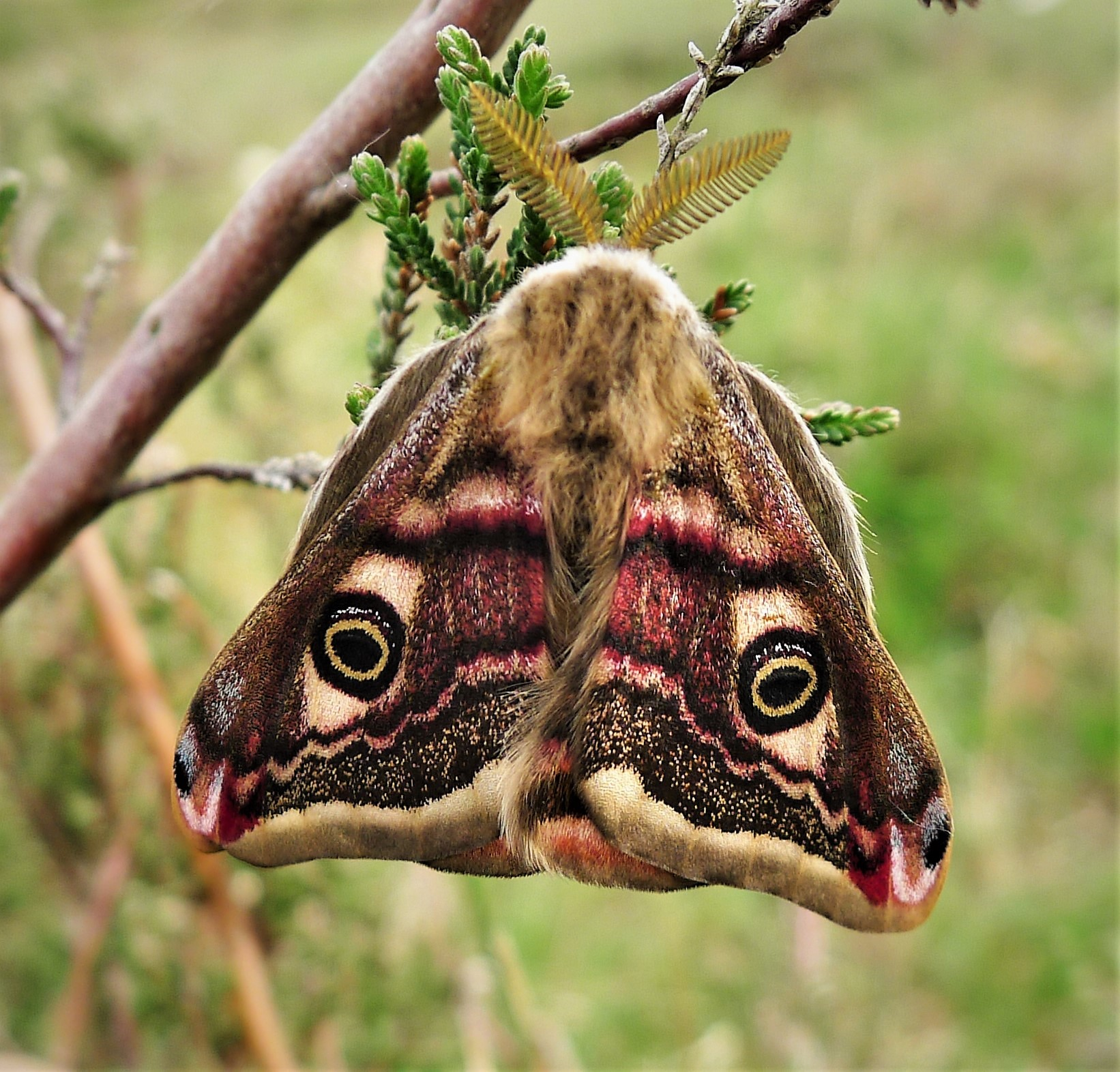 Finally managed photos of this wonderful moth on Hartlebury Common, Worcs. SO822707. Three males seen